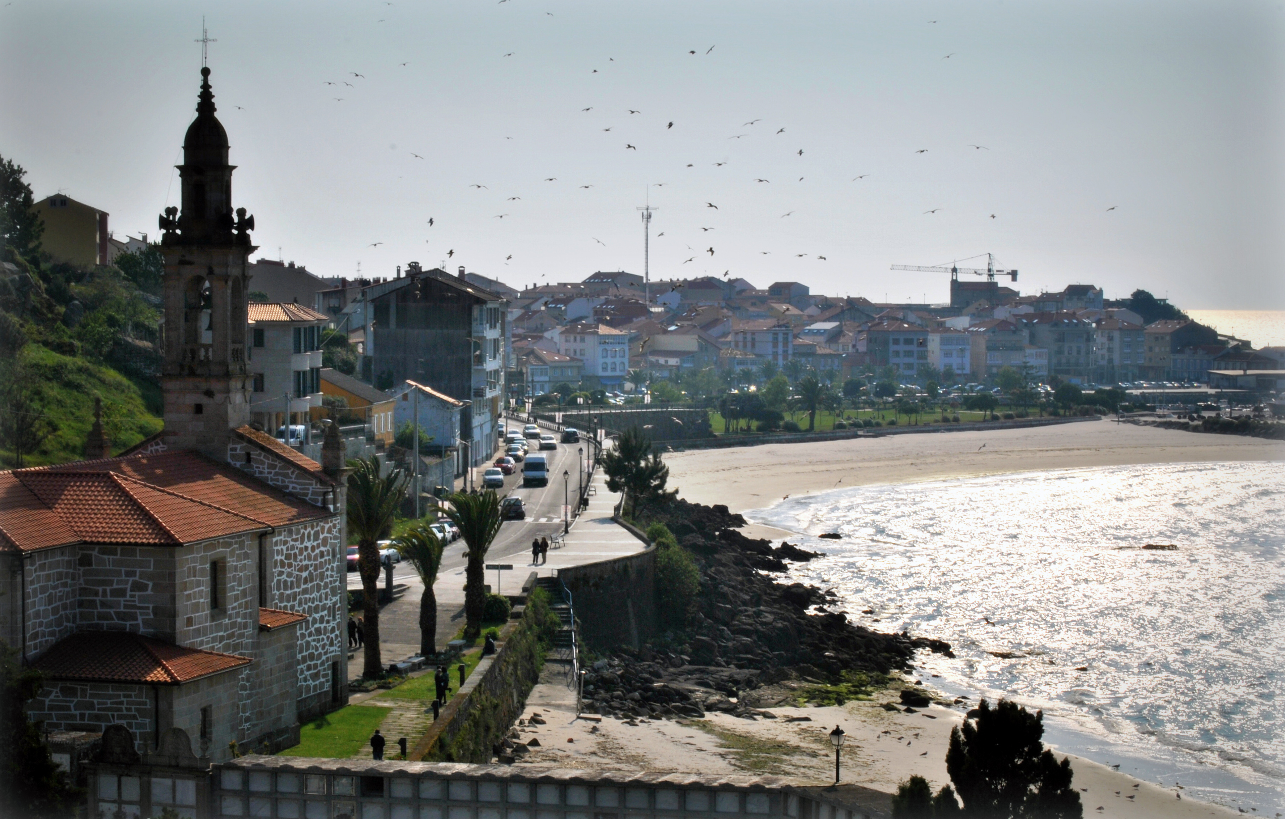 Spanish village in a province of A Coruña